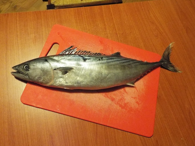 Sarda sarda collected in northern Tyrrhenian sea (Italy)